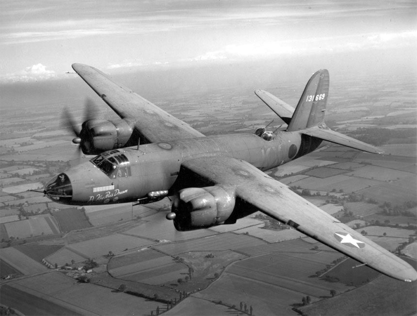 A B-26B bomber in flight. "A Kay Pro's Dream"